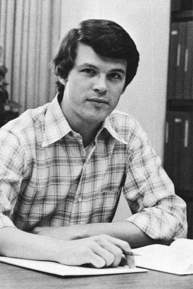 California Institute of Technology Professor Peter Dervan